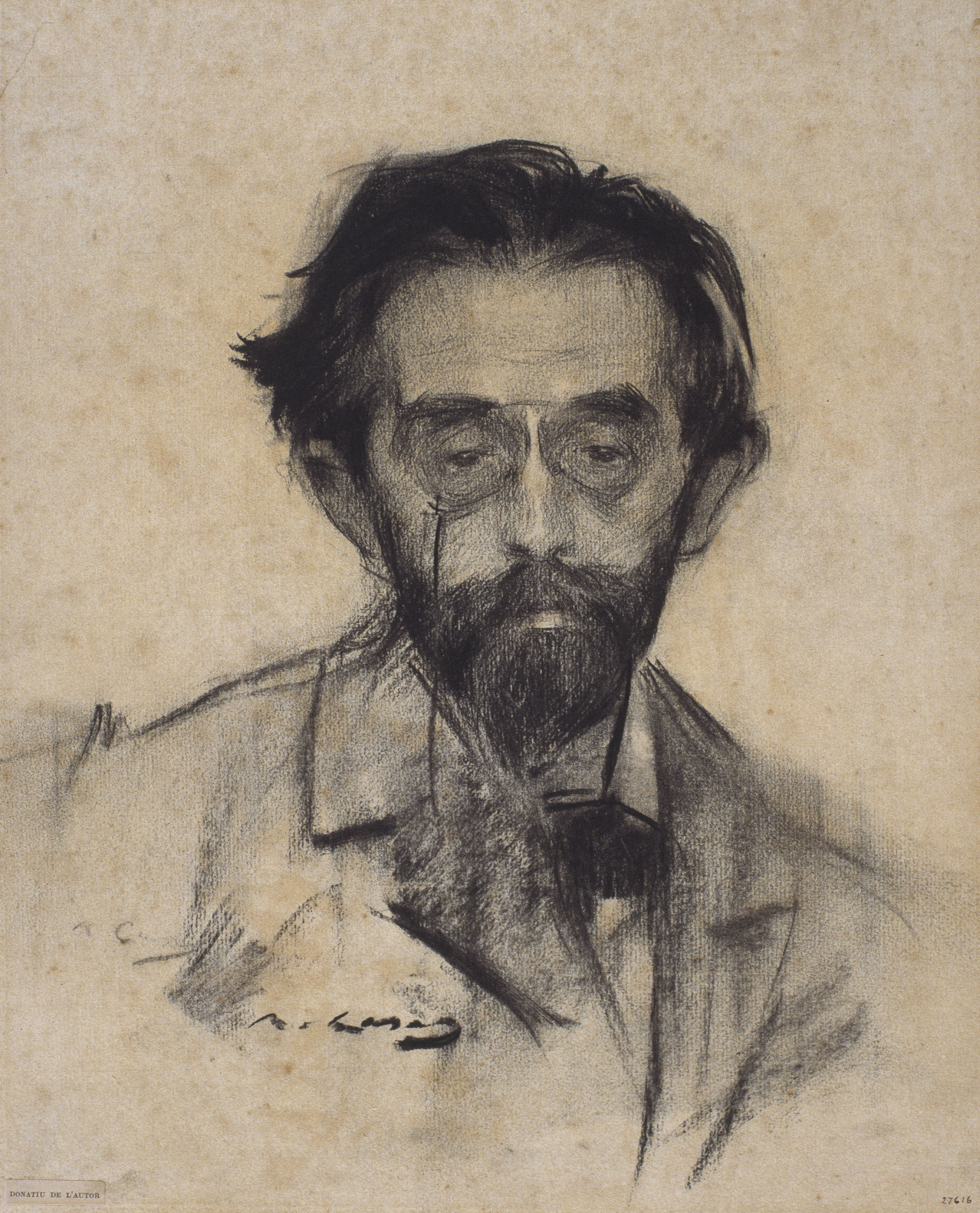 Portrait by Ramon Casas conserved at MNAC in Barcelona. Imagen 098